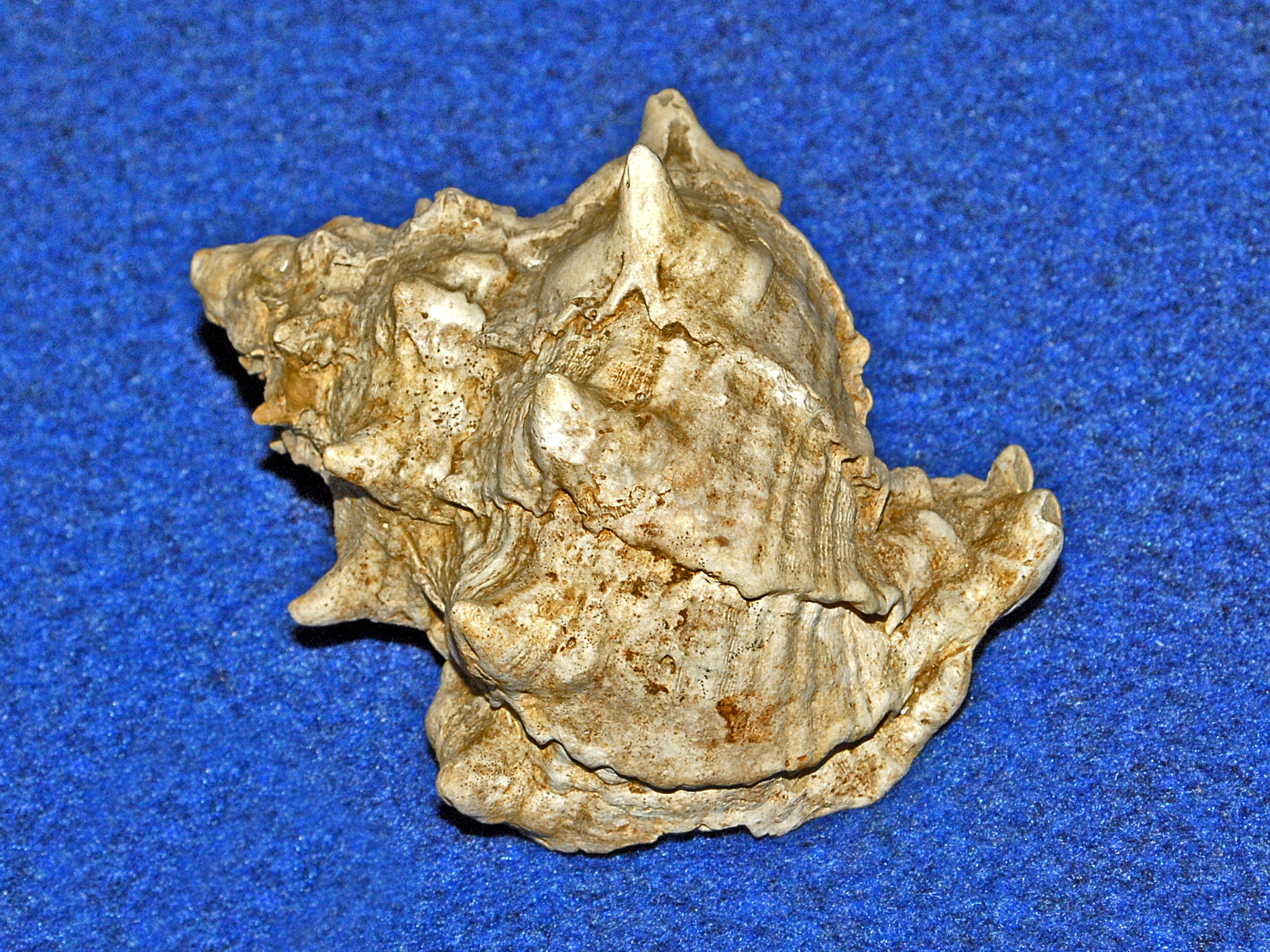 Fossil shell of Hexaplex trunculus conglobatus from Pliocene of Italy, on display at the Museo Paleontologico, Asti